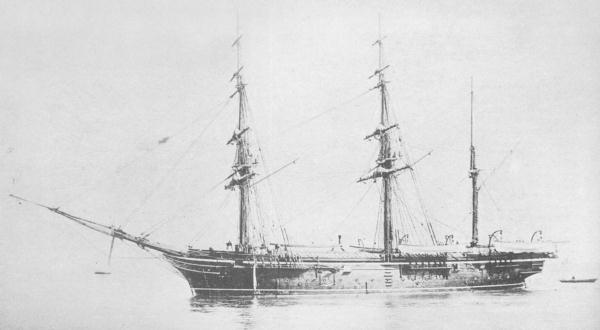 KANJU, training ship of the Imperial Japanese Navy, at Tokyo Bay.